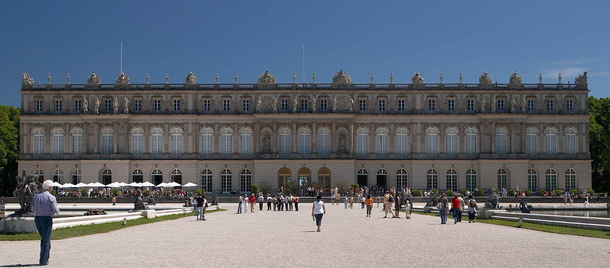 The Neues Schloss in May of 2005.